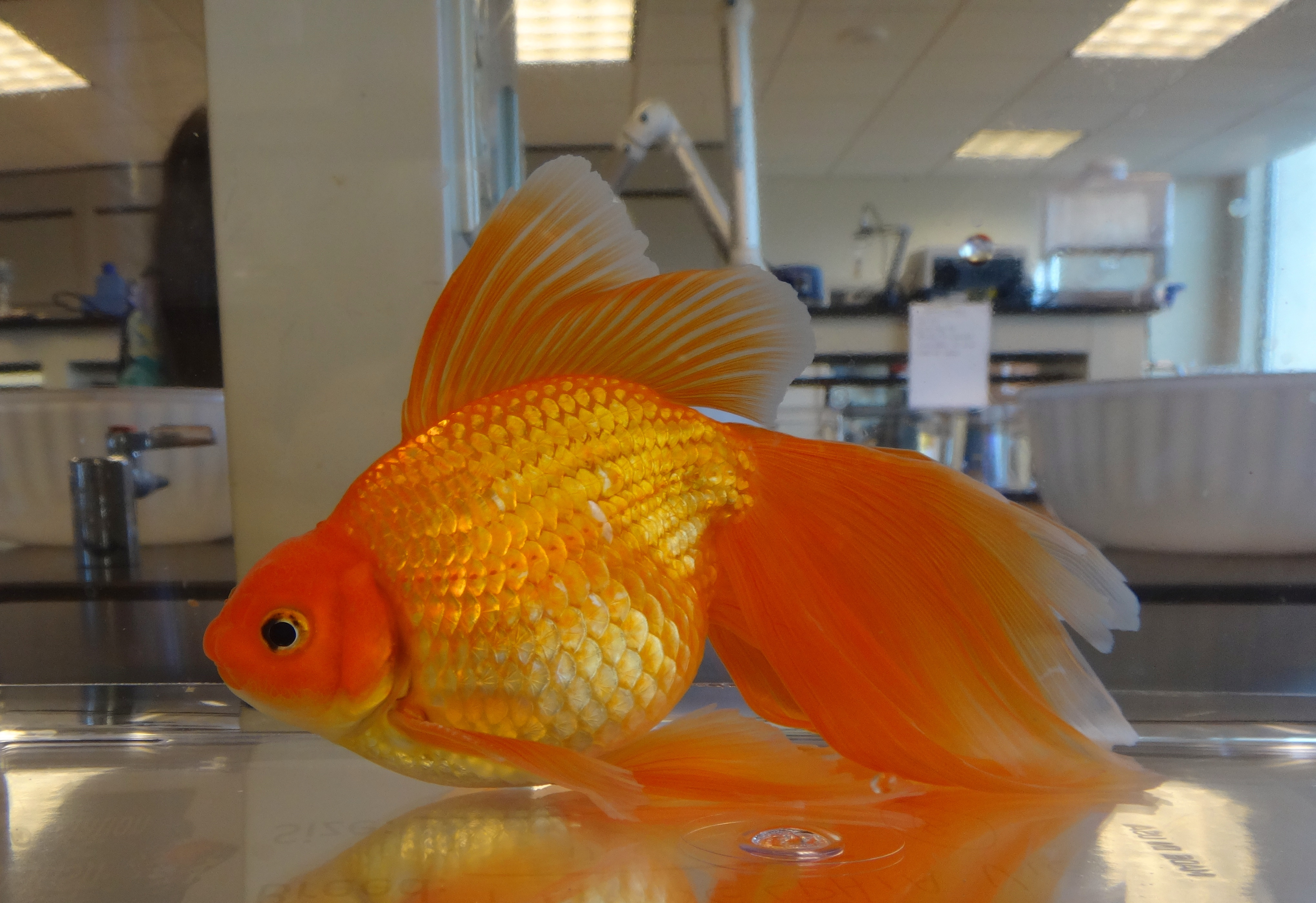 Philadelphia Veiltail Goldfish